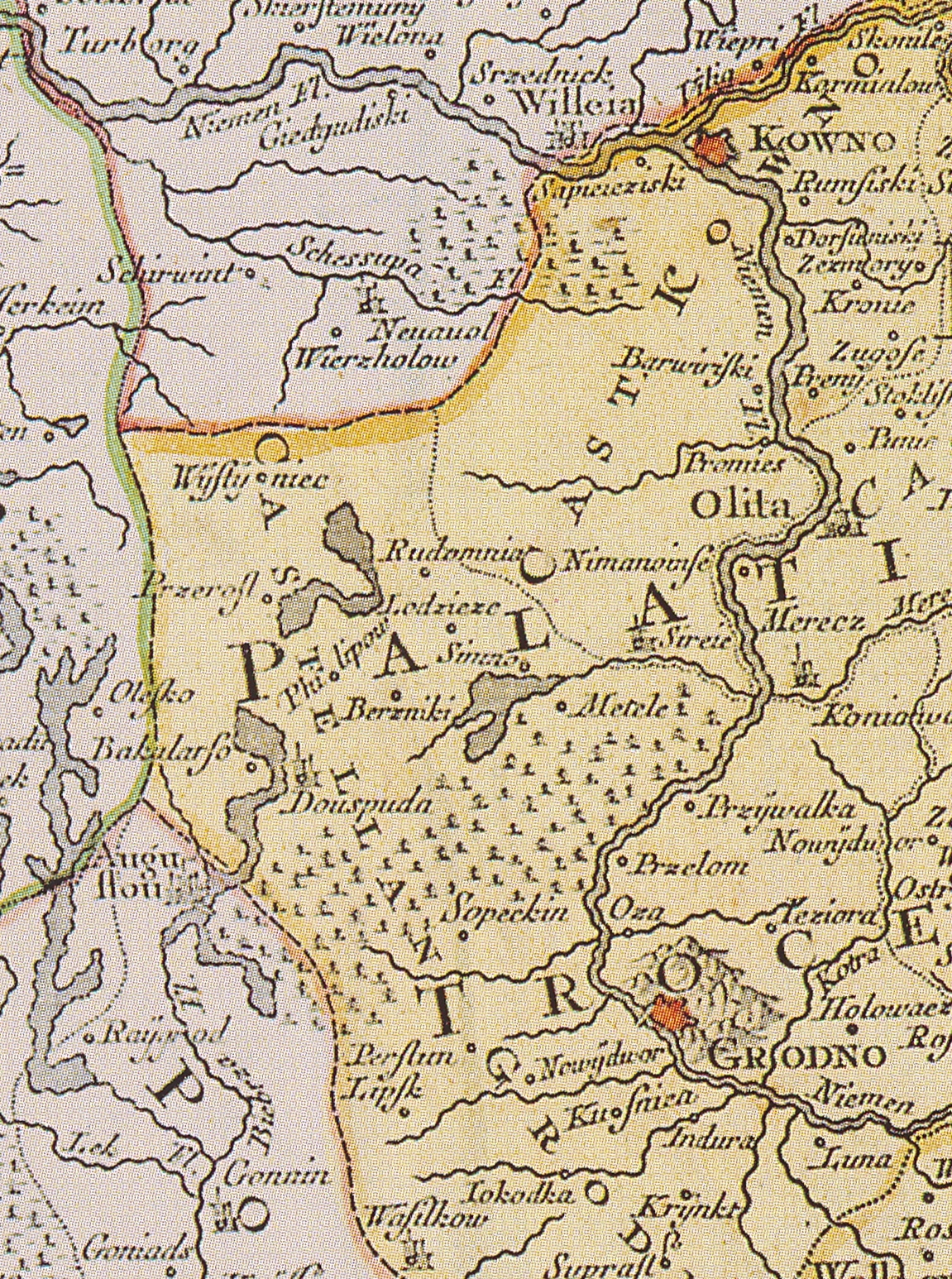 part of Magnus Ducatus Lithuania, a 1780 map by Lotter, printed in Augsburg